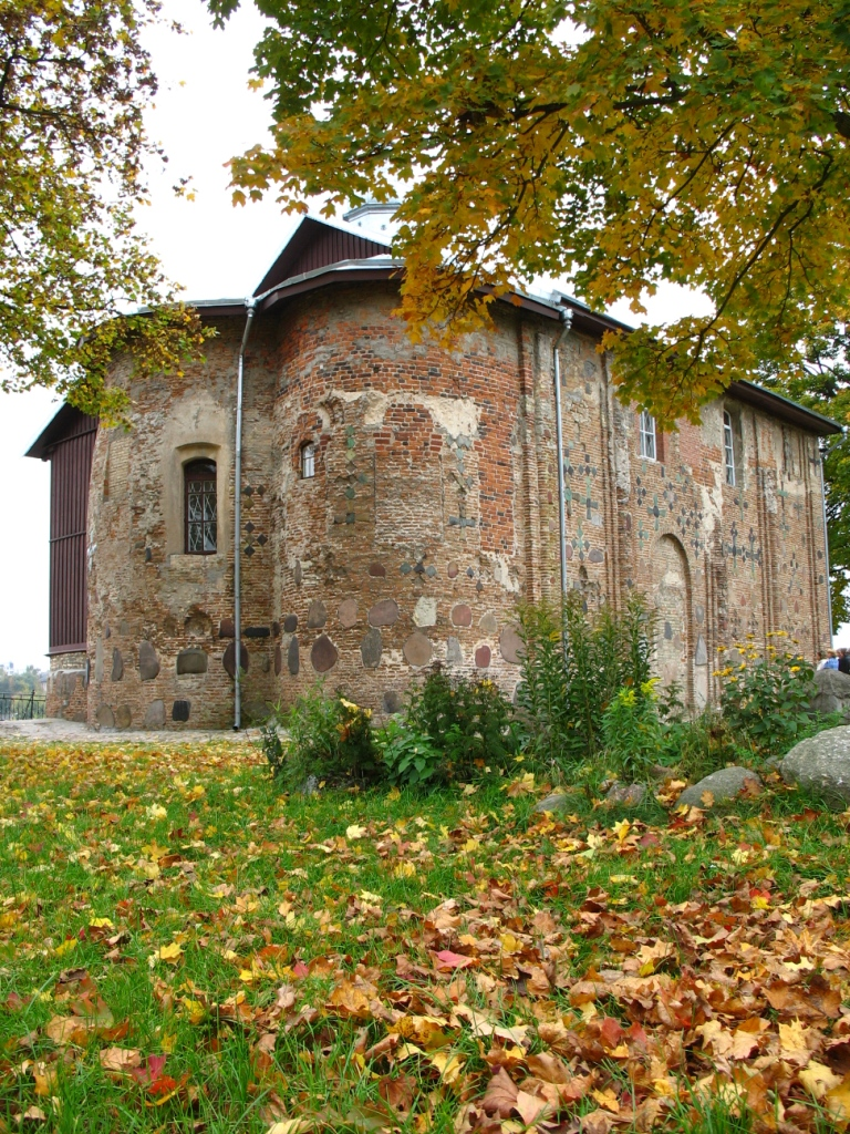 St_Barys_and_Hleb_Church_Horadnia